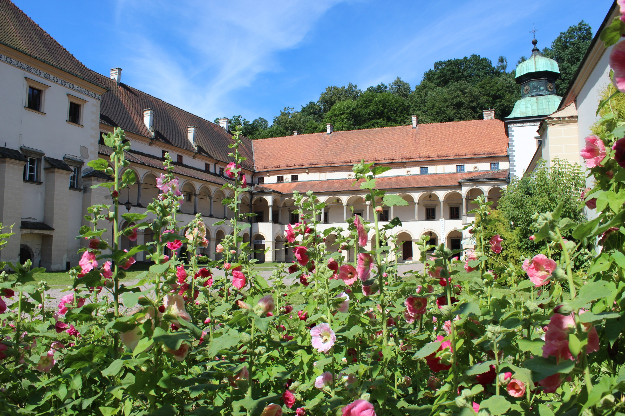 Sucha Beskidzka Castle